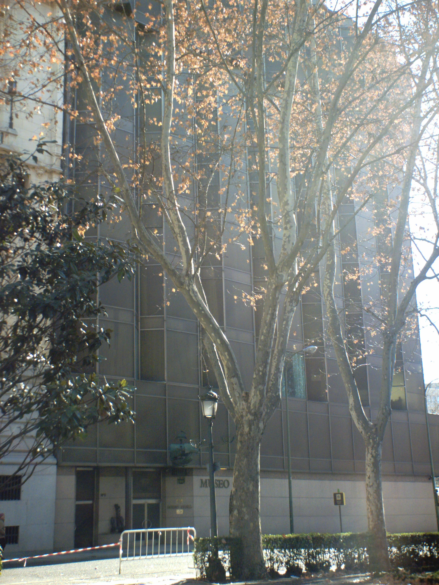 Entrance to the Museo Naval de Madrid, at Paseo del Prado.